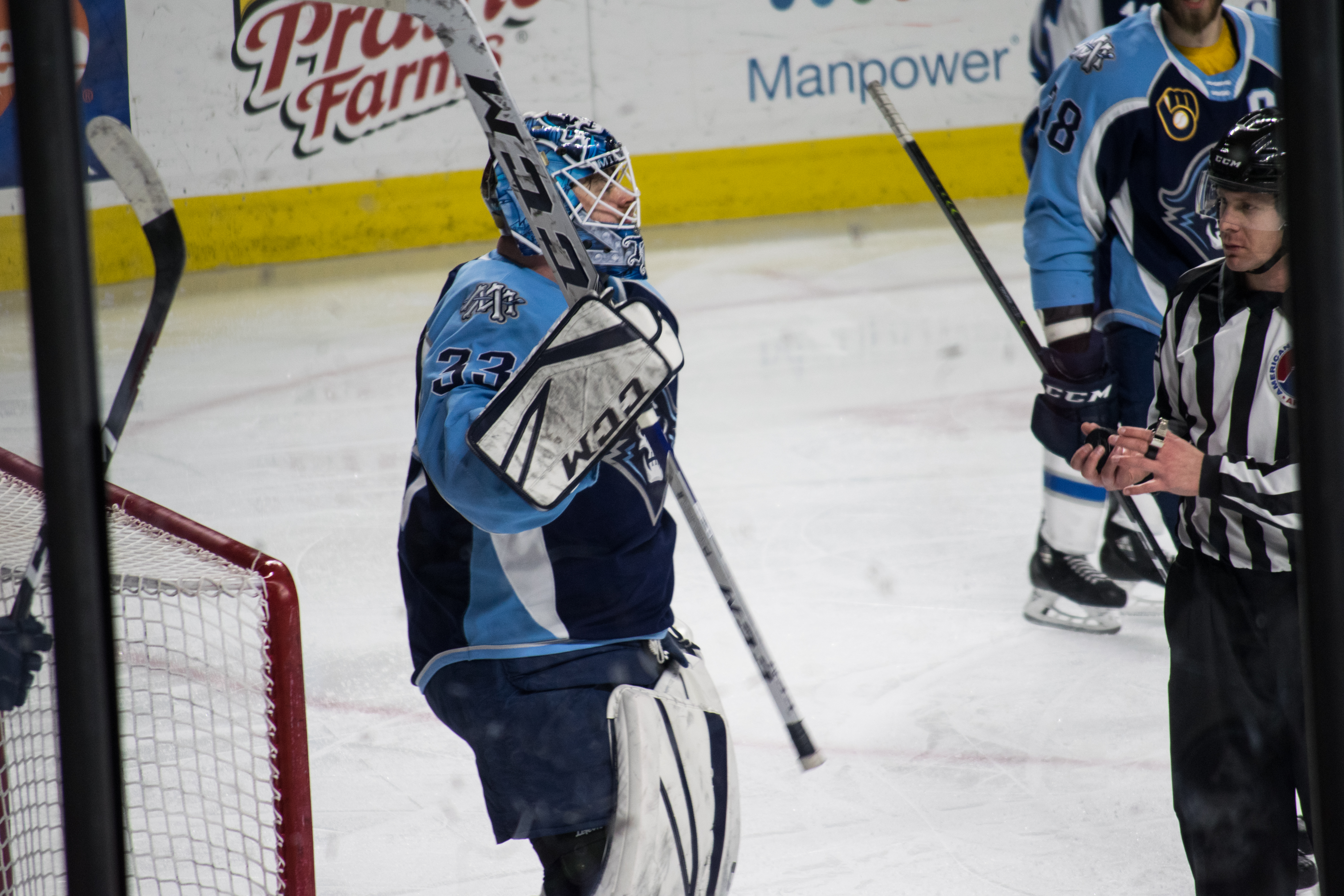 Photo of Milwaukee Admirals goaltender Tom McCollum